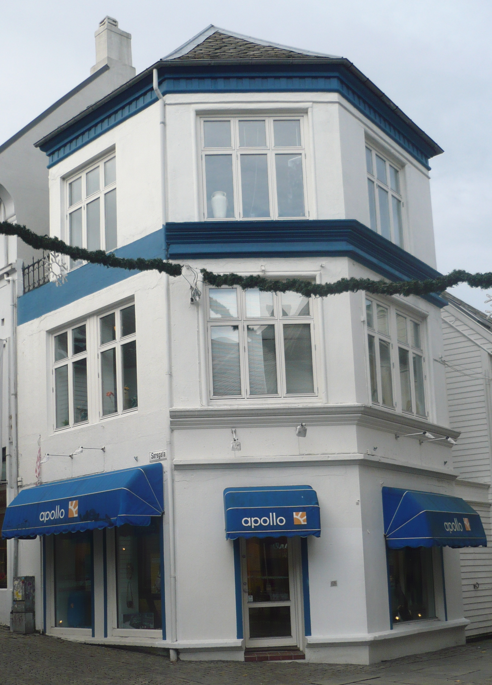 The so called Babels tower in Østervåg in Stavanger from 1897.